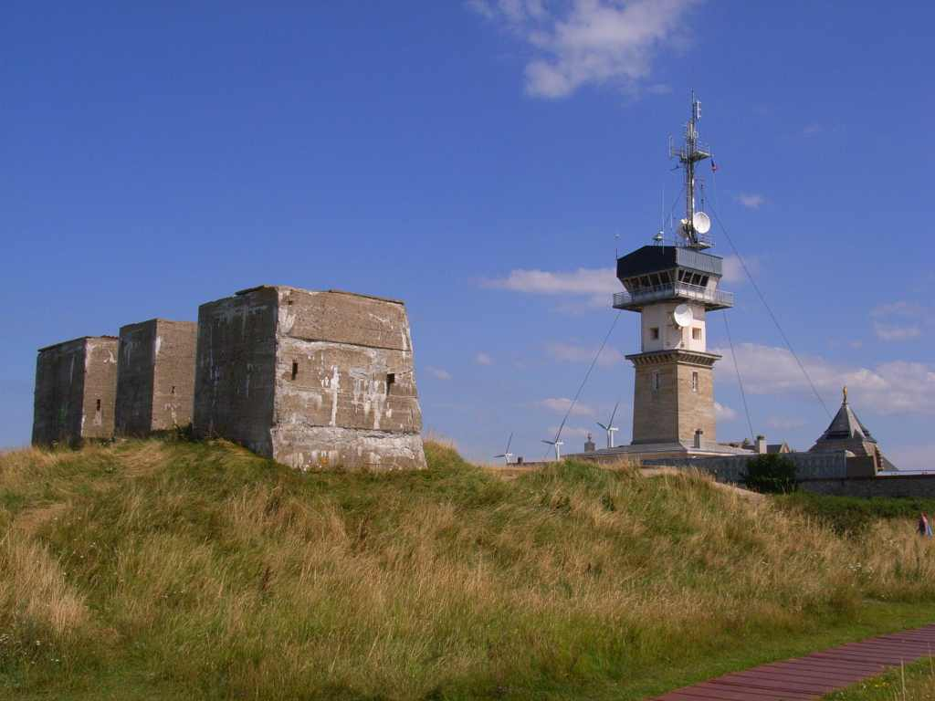 Cap Fagnet, Fecamp, France